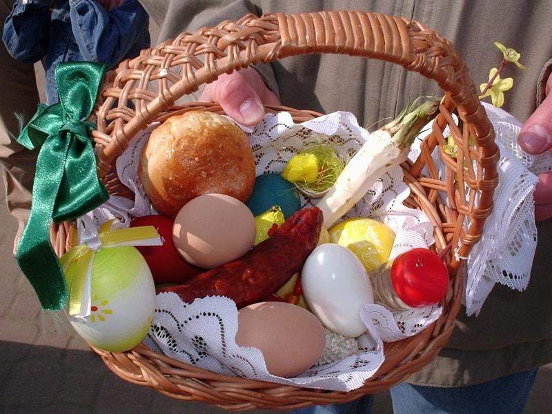 Holy Saturday; the blessing of the Easter baskets, Sanok